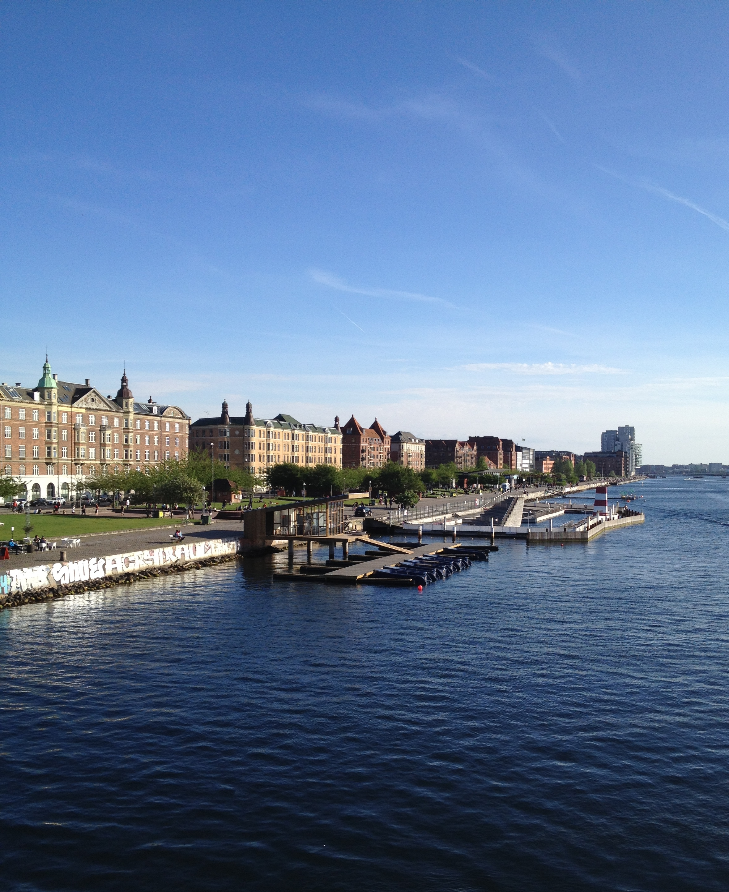 GoBoat terminal at Islands Brygge in Copenhagen, Denmark UPDATE: This is GoBoat. Just opened. Their site is